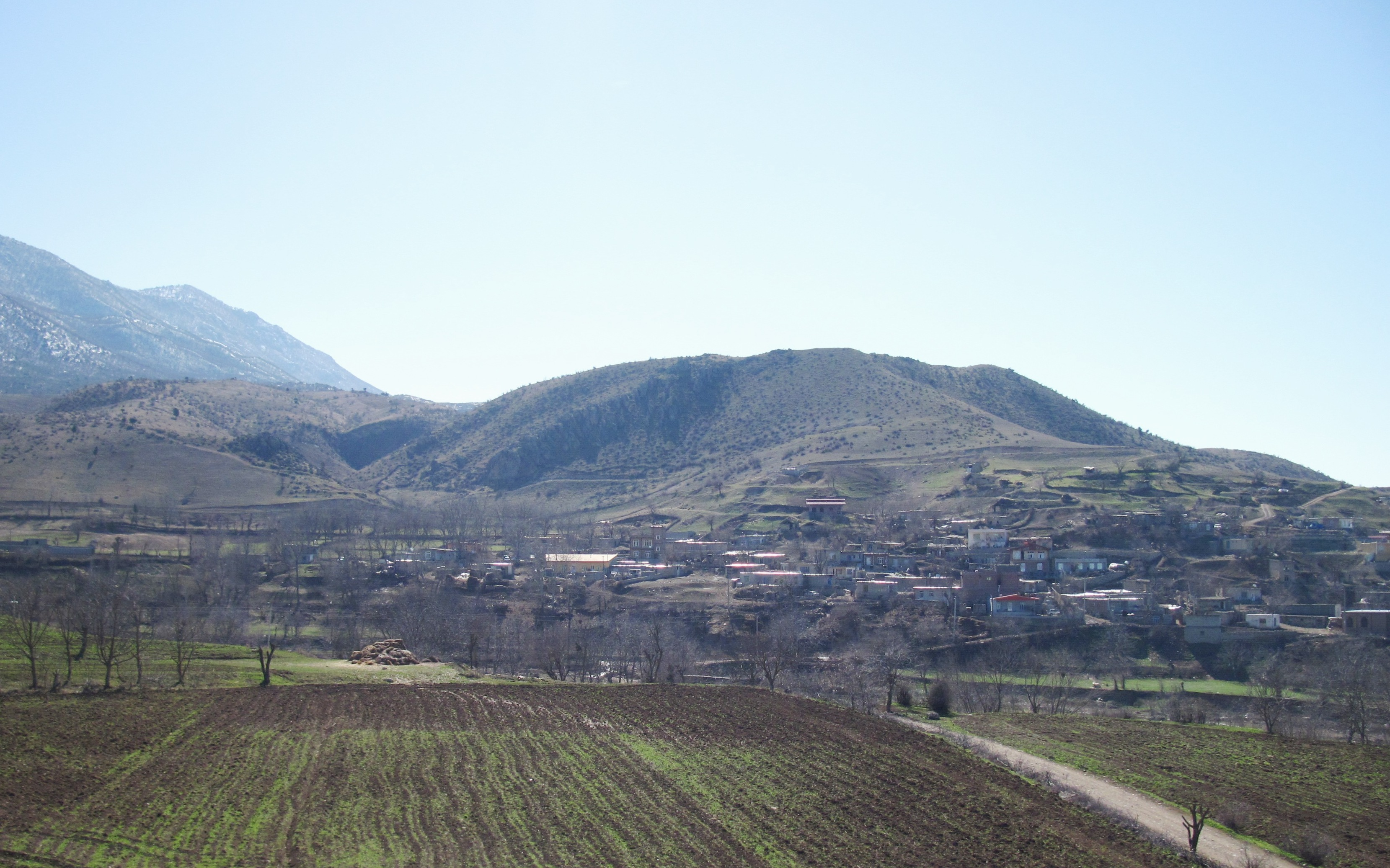 This photo was taken from Tu Ali-ye Olya village, which is located close to the banks of Aras river.